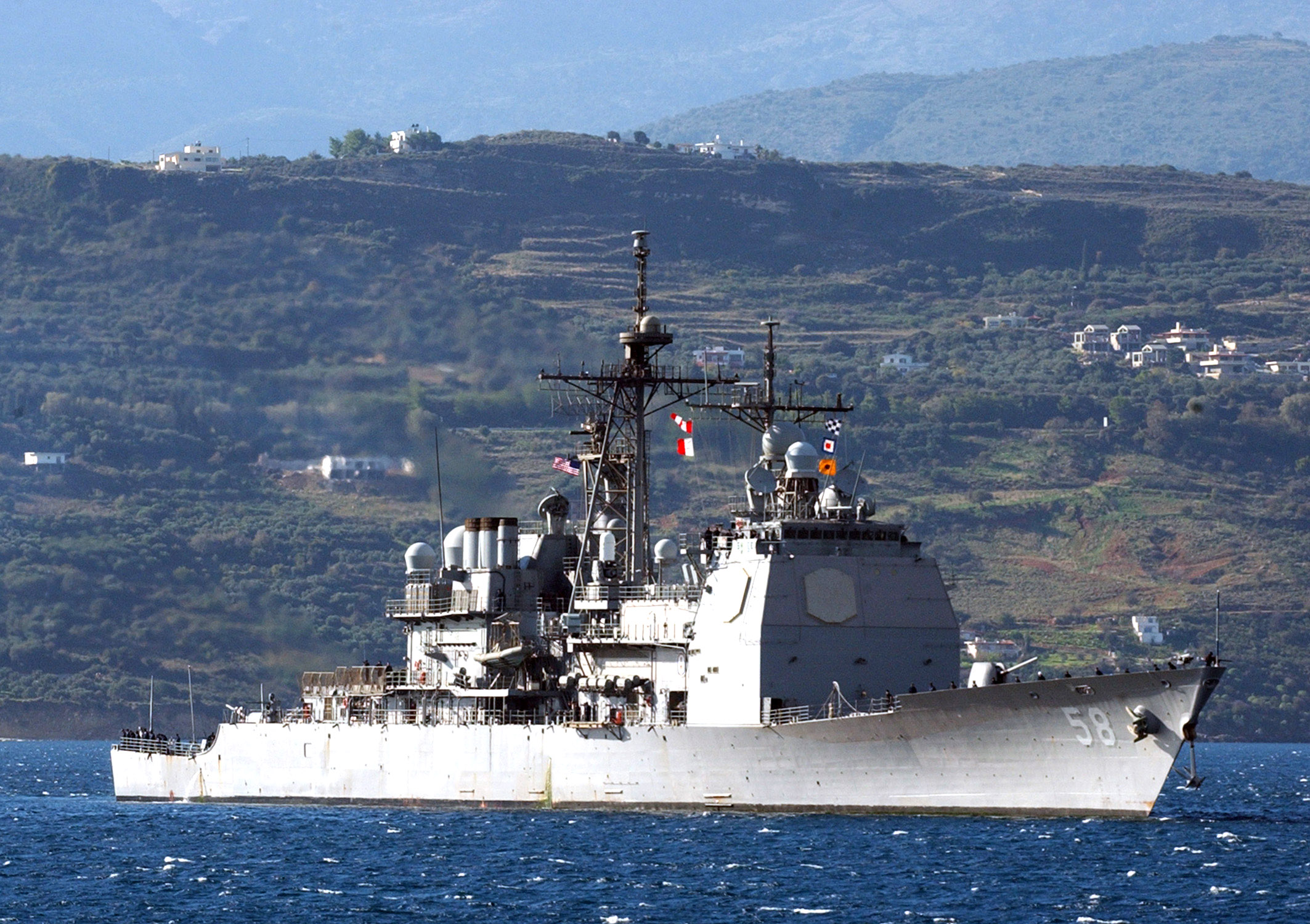 Chania, Crete, Greece (Nov. 10, 2006) - The guided-missile cruiser USS Philippine Sea (CG-58) arrives in Souda Harbor for a routine port visit. The Ticonderoga-class cruiser, with her crew of nearly 400 personnel, is on her homeward-bound transit of the Mediterranean Sea nearing the end of a regular six-month deployment to the Persian Gulf in support of the Global War on Terror. U.S. Navy photo by Mr. Paul Farley (RELEASED)